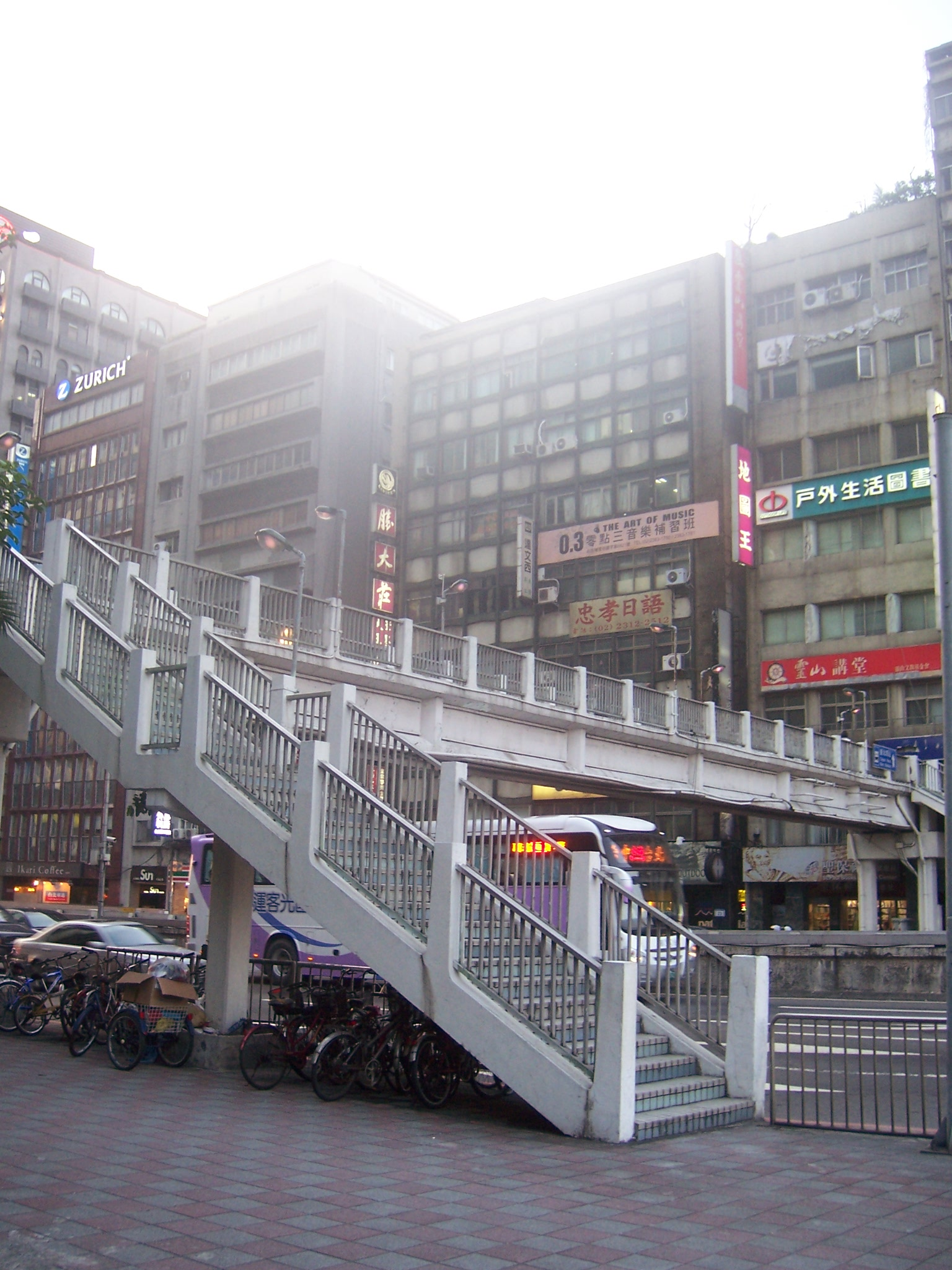 Foot bridge by the intersection of Zhongxiao W. & E. Rd. and Zhongshan N. & S. Rd., Taipei, Taiwan.